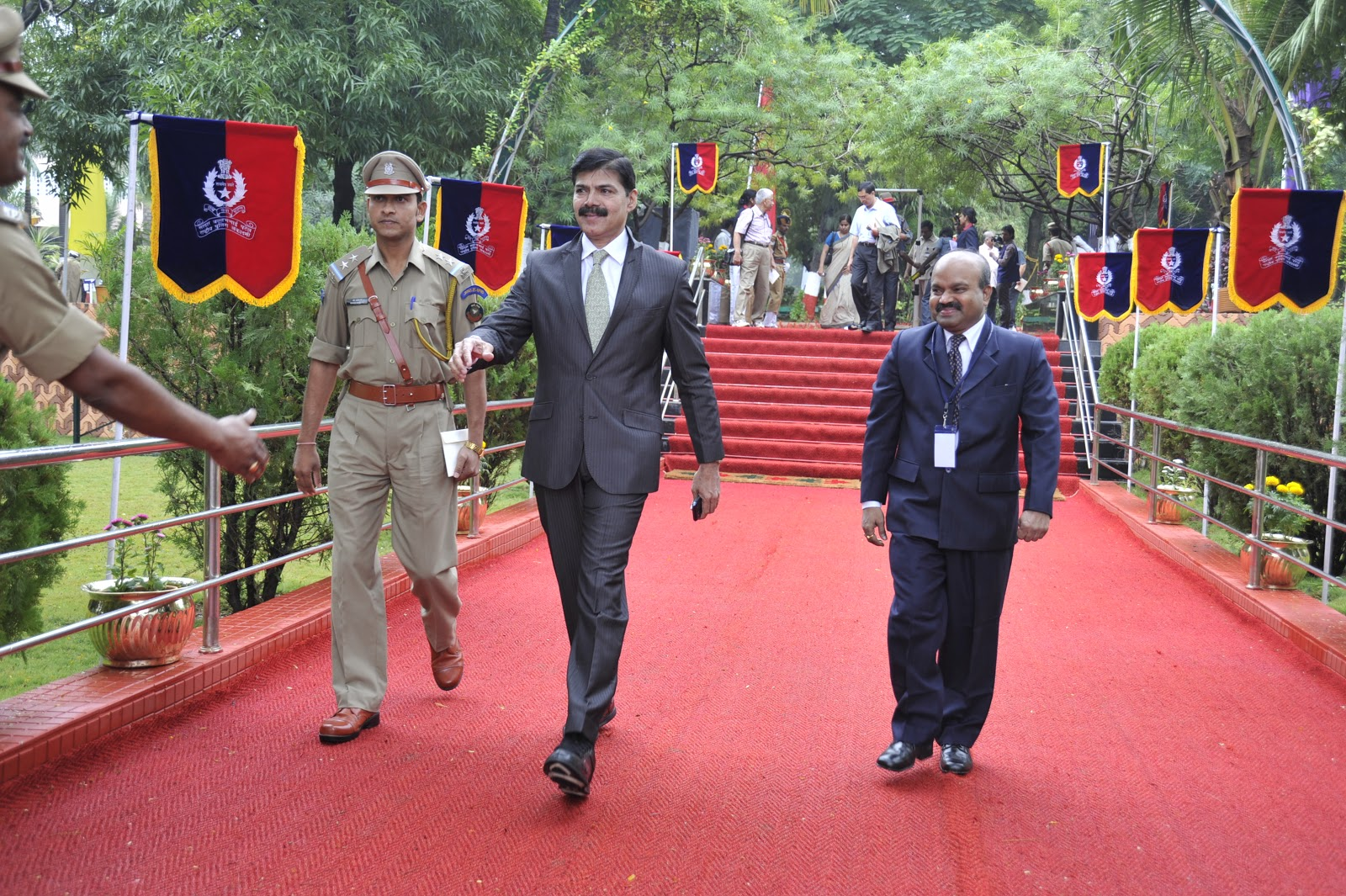 K Vijay Kumar IPS Passing Out Parred SVPNPA